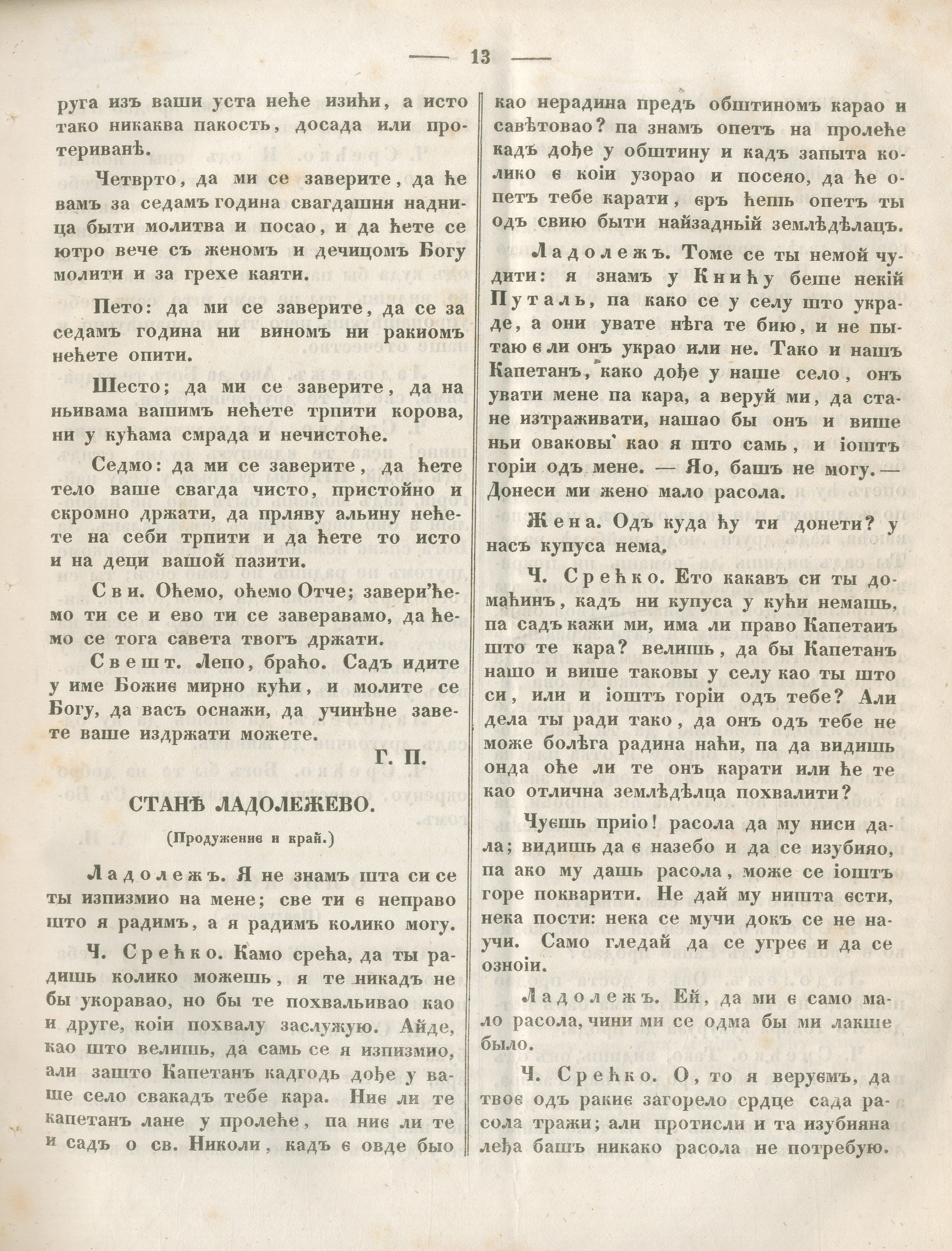 Serbian magazine Čiča Srećkov list, Belgrade, number 2, 13. January, 1848. Srpski (latinica): Časopis Čiča Srećkov list, Beograd, broj 2, 13. Januar, strana 13, 1848, članak o ladoležima.